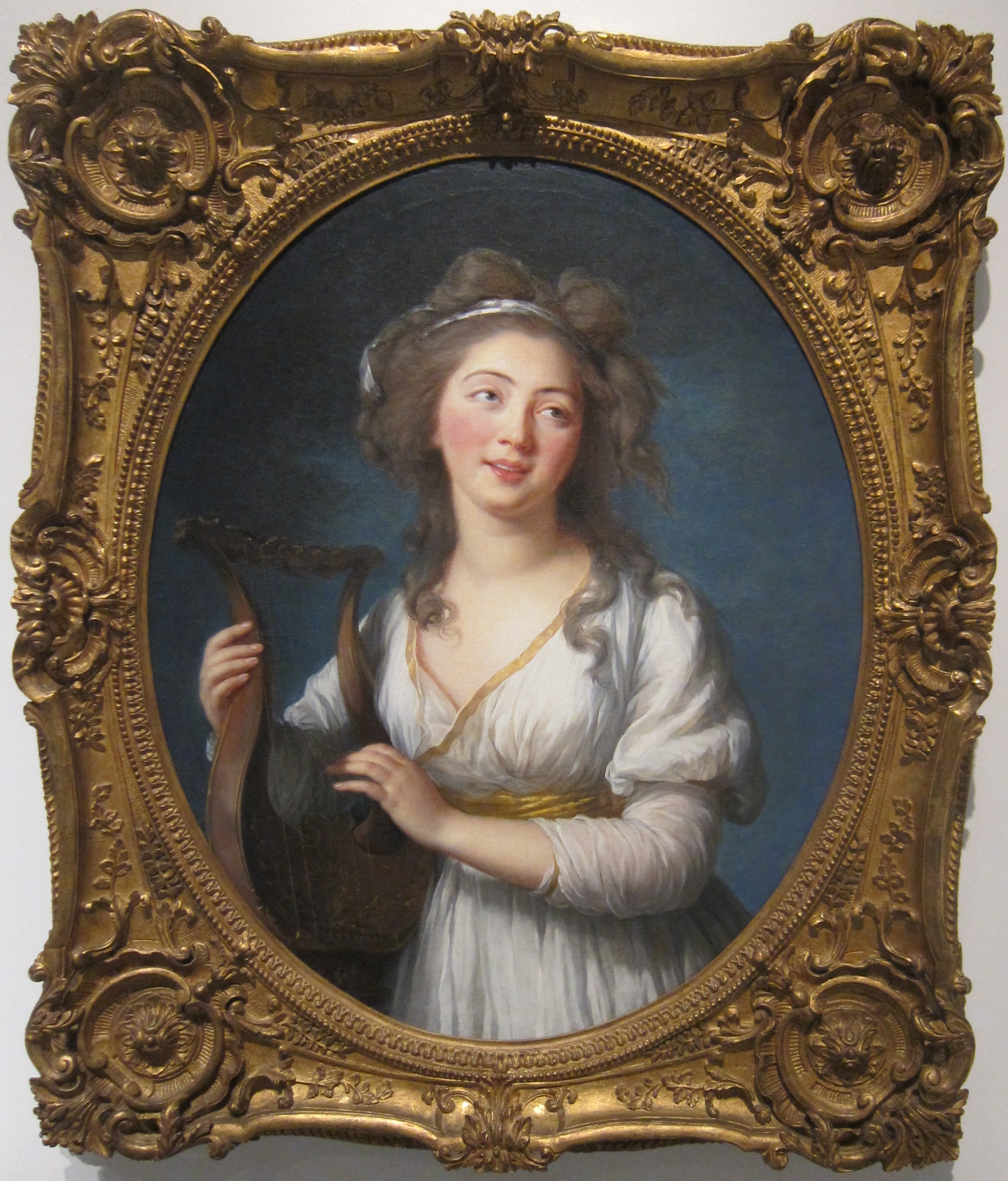 Portrait of a young woman Playing a Lyre